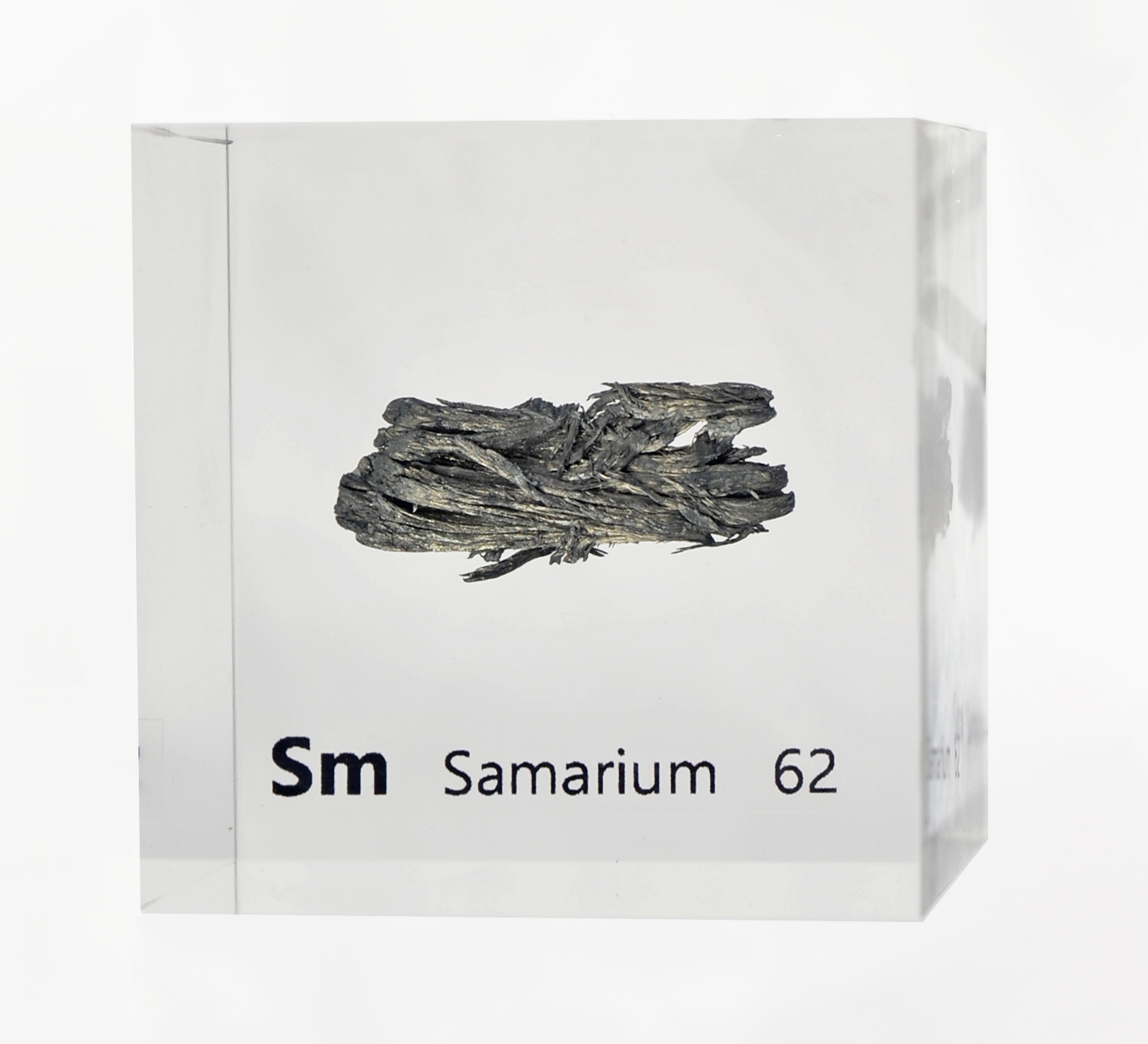 A sample of samarium metal encapsulated by Luciteria in an acrylic cube